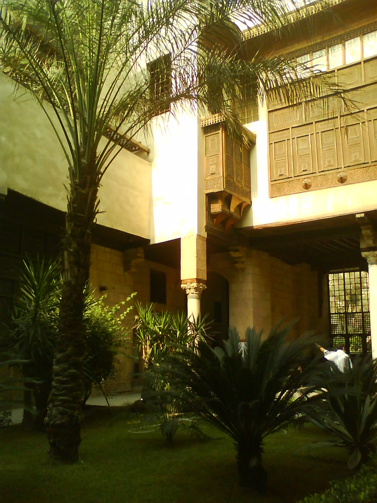 Picture of the internal yard of "Bet El Sehemi" El Sehemi's house which is a traditional house located in Muizz Street in Islamic Cairo. Unknown